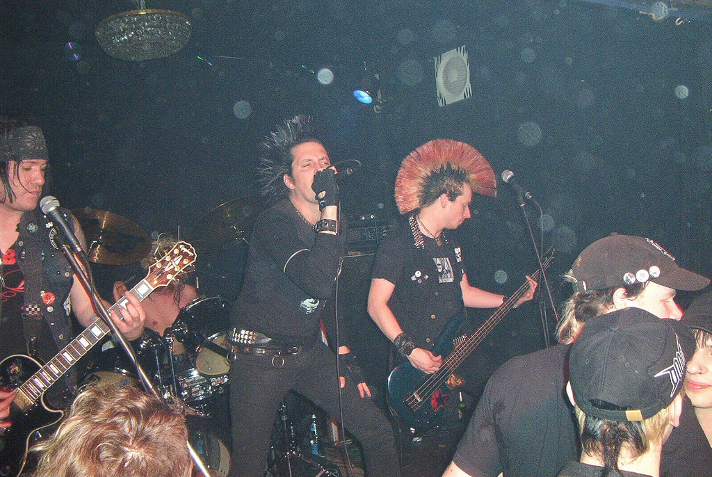 Total Chaos gig in Frenkfurt Germany, early 2008